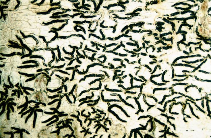 Graphis scripta (L.) Ach., 1809 (photograph of a herbarium specimen) Growing on Paper Birch in open area at Iron Bridge at Carp Creek, off Hogsback Road, Cheboygan County, Michigan, USA; collected and identified by Richard E. Riefner (No. 81-356, 29 Jun 1981); specimen is now in the Lichen Herbarium of the New York Botanical Garden.